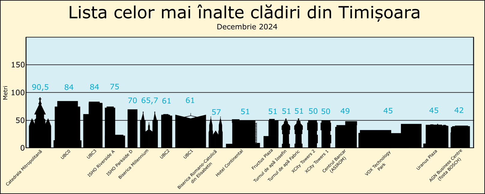 List of the tallest buildings in Timisoara